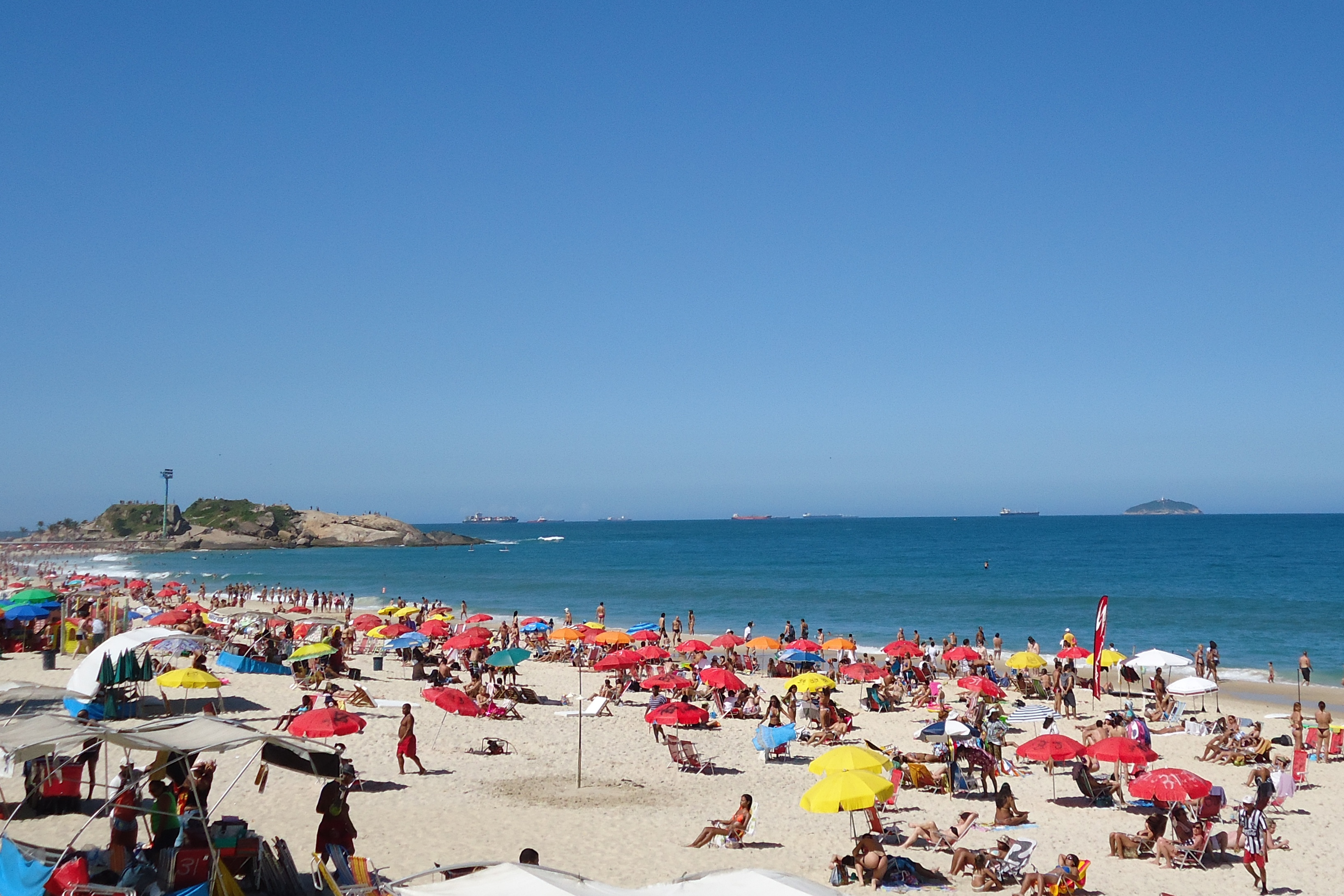 Ipanema beach, Rio de Janeiro city, RJ, Brazil. The small peninsula of Arpoador can be seen on the left background. The Rasa Island is on the right background.